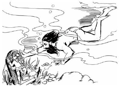 ramdas